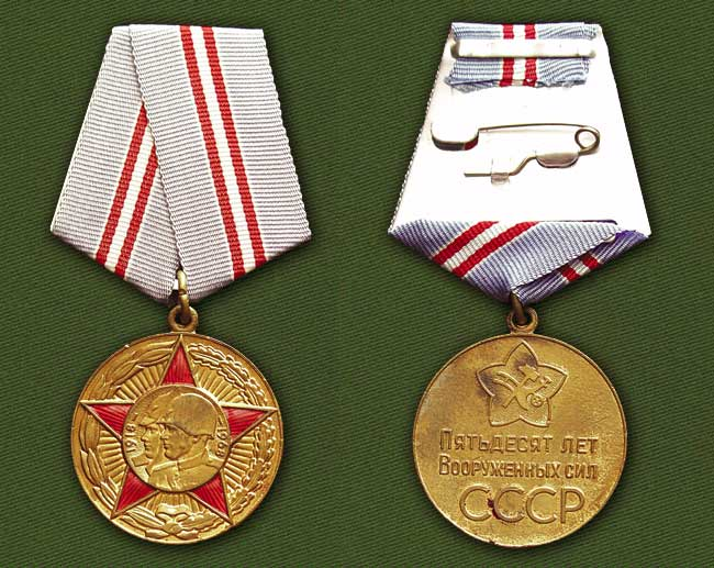 50 Years Since The Creation Of The Soviet Armed Forces medal